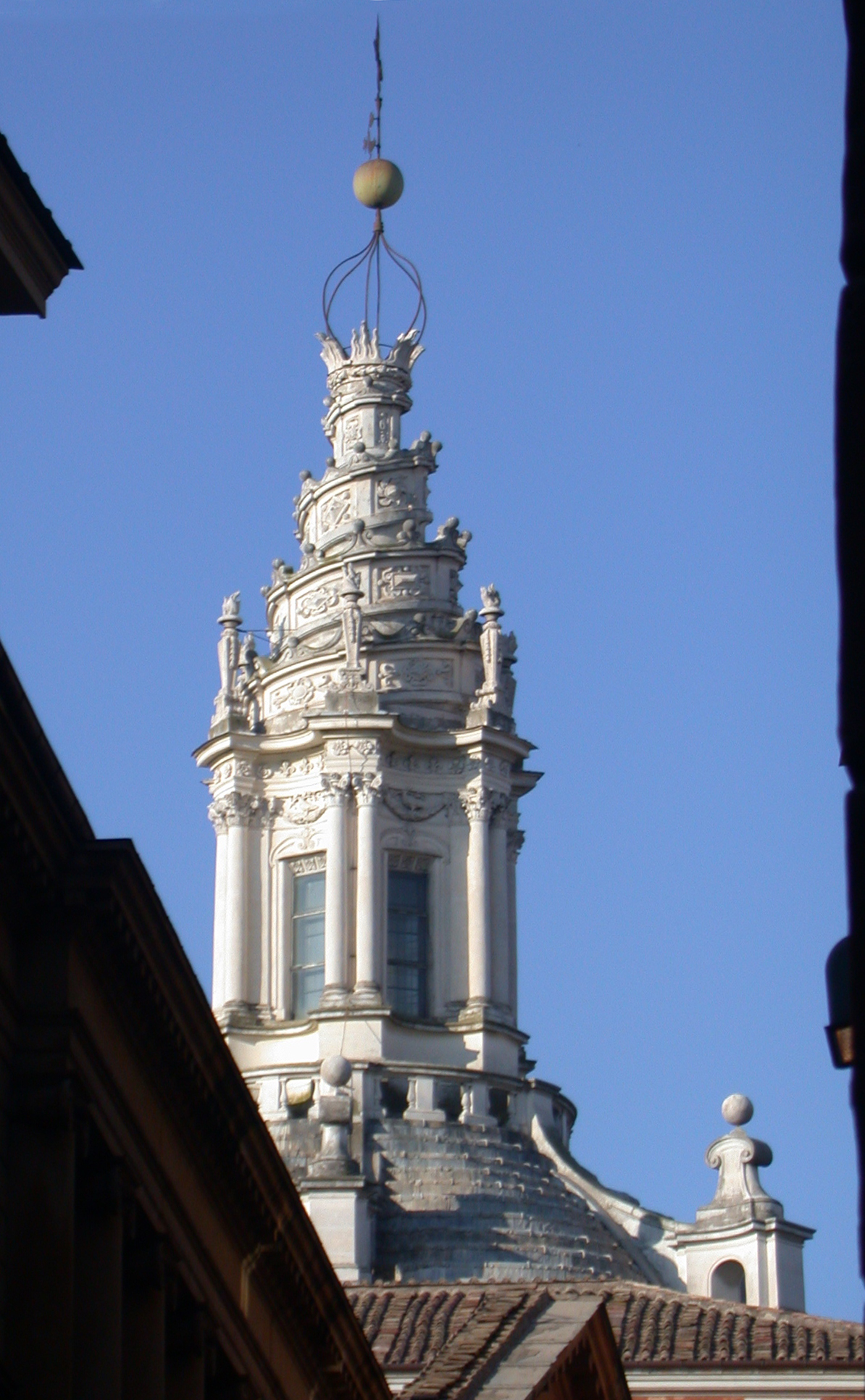 Rome, church of Sant'Ivo alla Sapienza, by Borromini, view of upper elicoidal part from Teatro Valle. Personal photo (november 2005) by MM in it.wiki